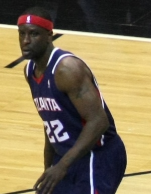 Atlanta Hawks basketball player Ronald Murray during a game against the Washington Wizards in 2008.